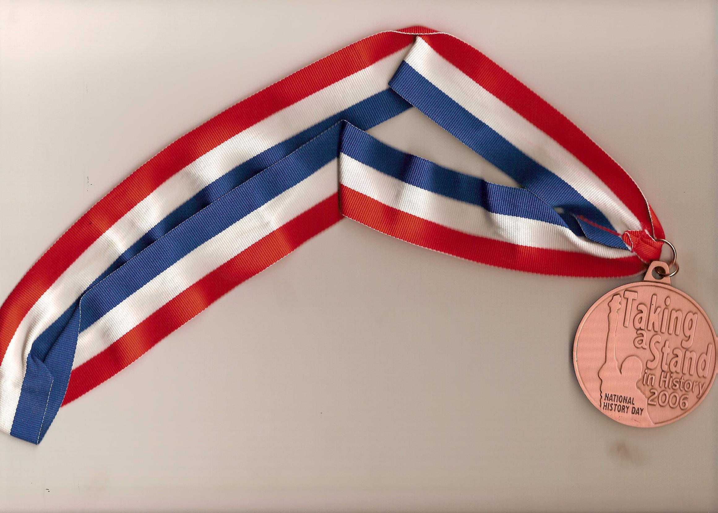 This is a medal of a 3rd place History Day medal.